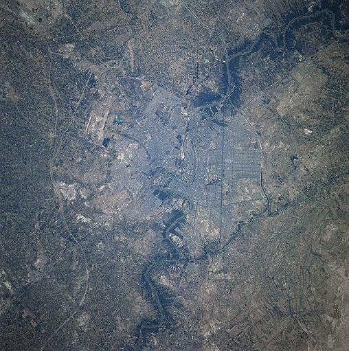 The capital city of Iraq, Baghdad, located in a broad plain with a population of nearly 4 million, can be seen in this near-nadir view. The Tigris River is visible entering the scene from the upper left (north) traversing south through the city, and exiting the scene at the right center of the image (south). Canals are discernible throughout the view traversing through and around the city. Even after the Gulf War of early 1991, Baghdad remains the major commercial and industrial center of the country. The runways of the Baghdad International Airport are visible midway between the center and the bottom of the image (west of the city center).